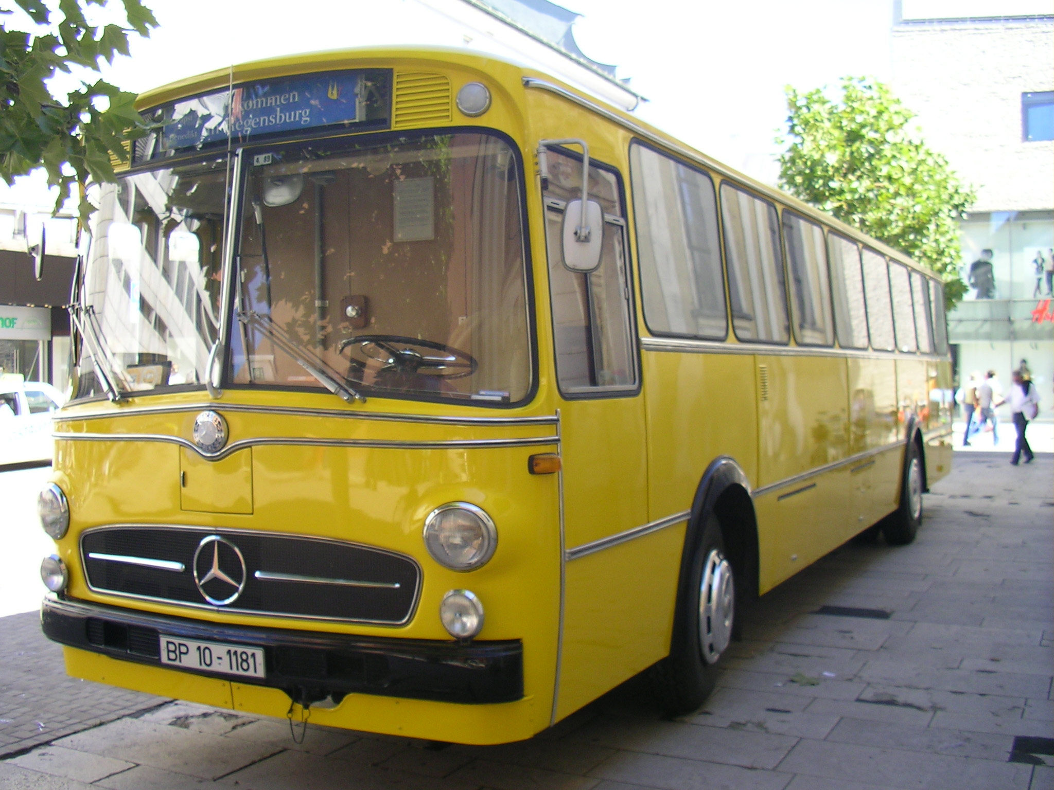 Mercedes-Benz O317 K Postbus at the Pope's visit in Regensburg 2006